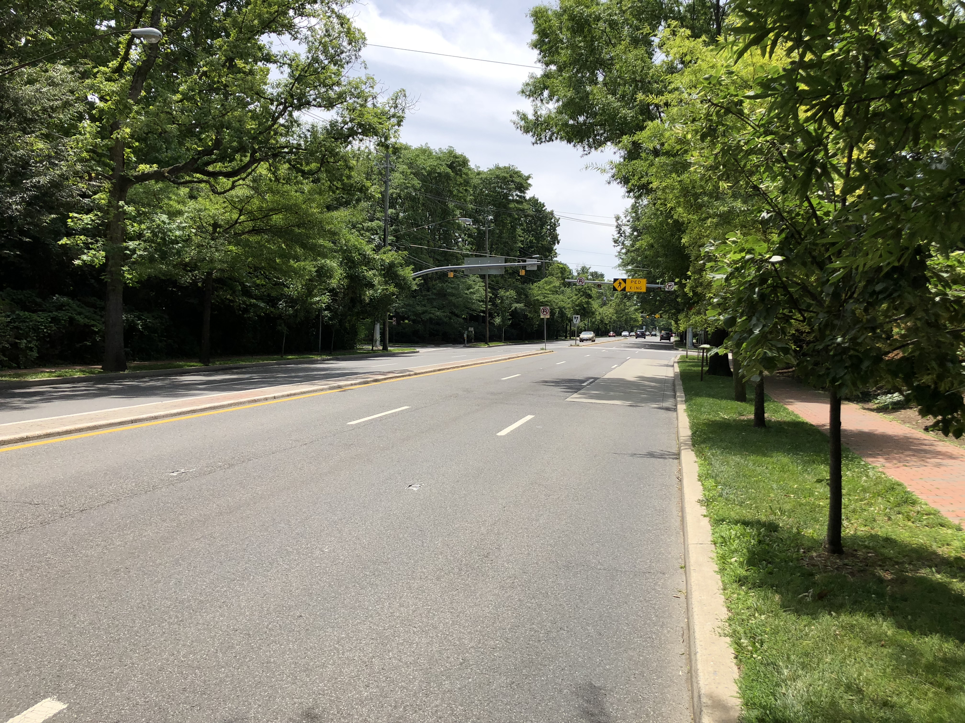 View south along Maryland State Route 185 (Connecticut Avenue) at Melrose Street in Chevy Chase Village, Montgomery County, Maryland